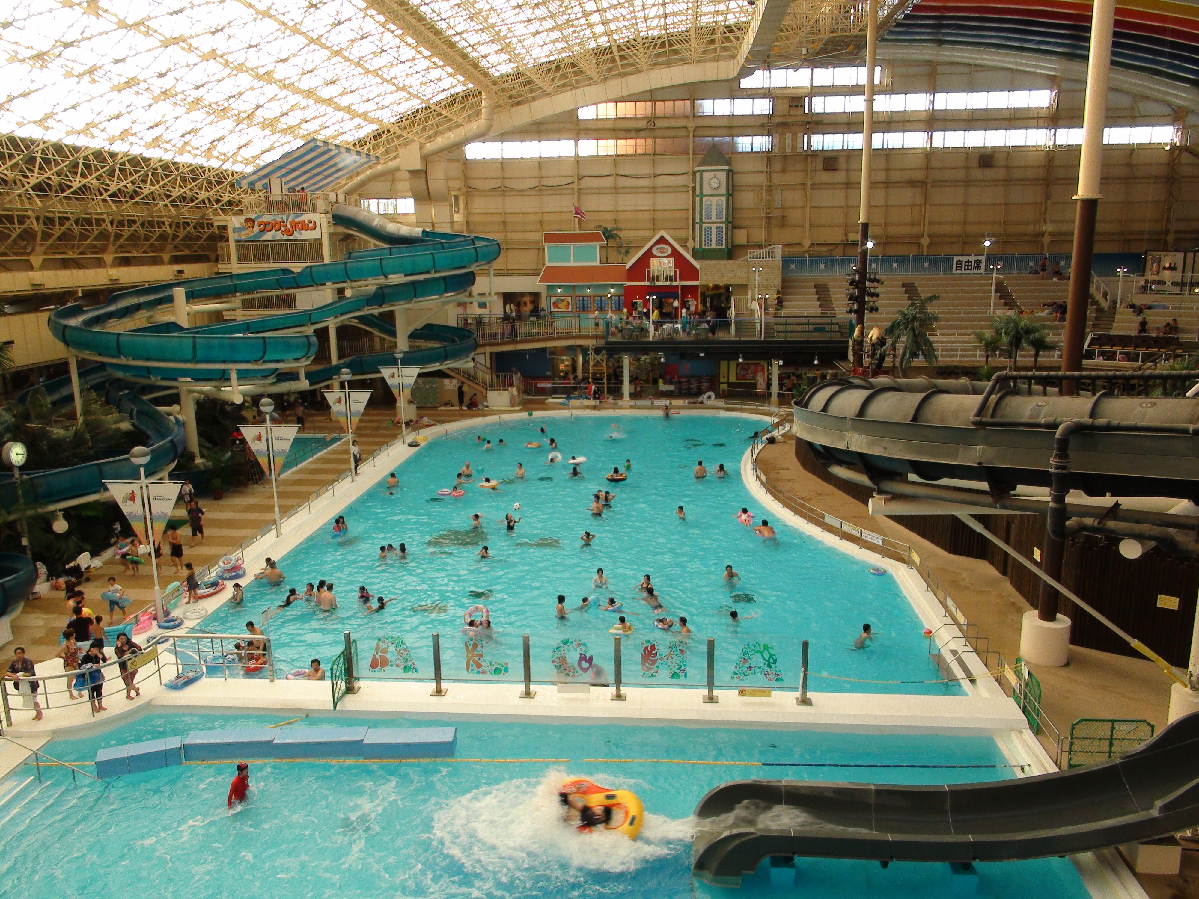 Spa Resort Hawaiians Water Park